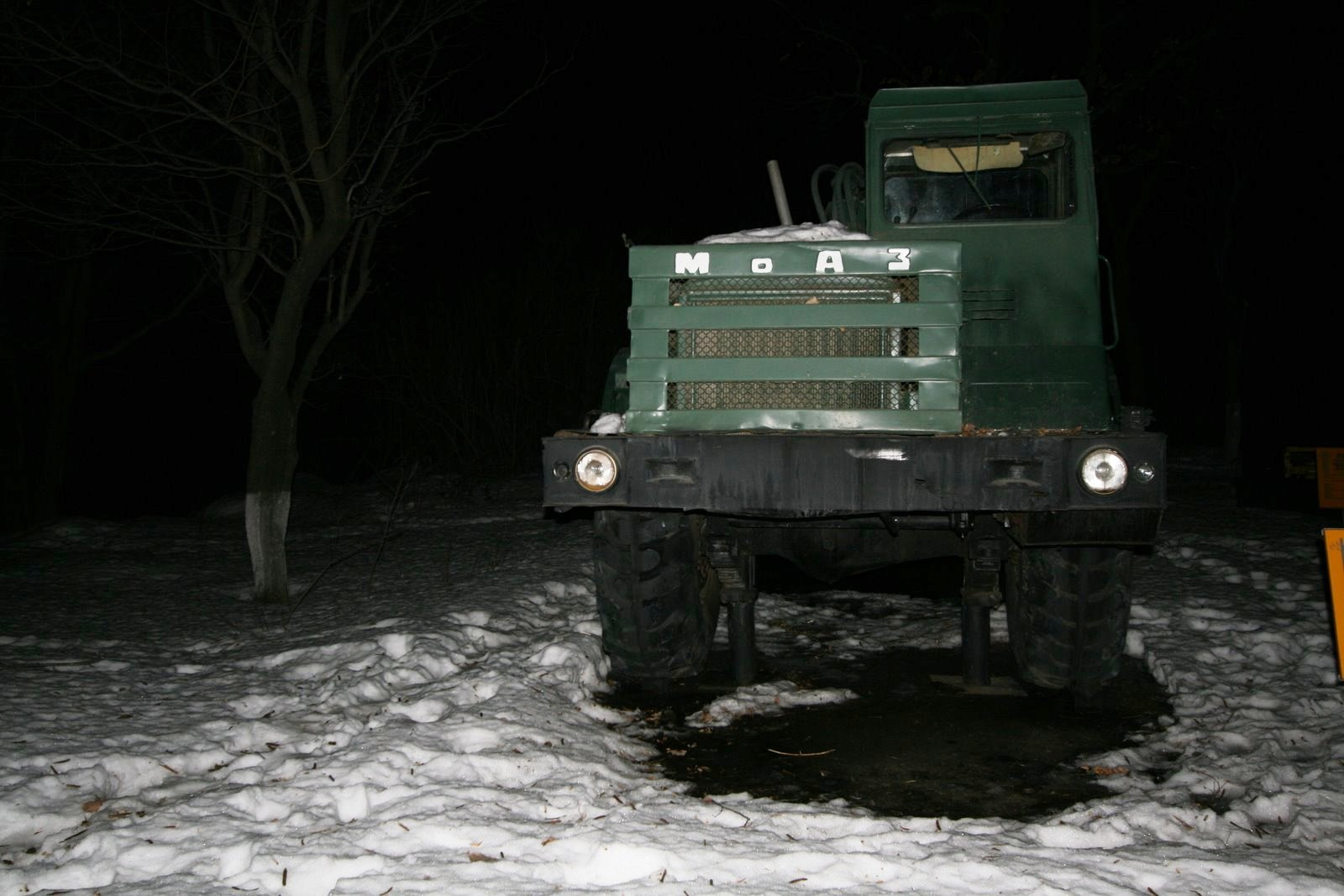 Front view of a MoAZ scraper.